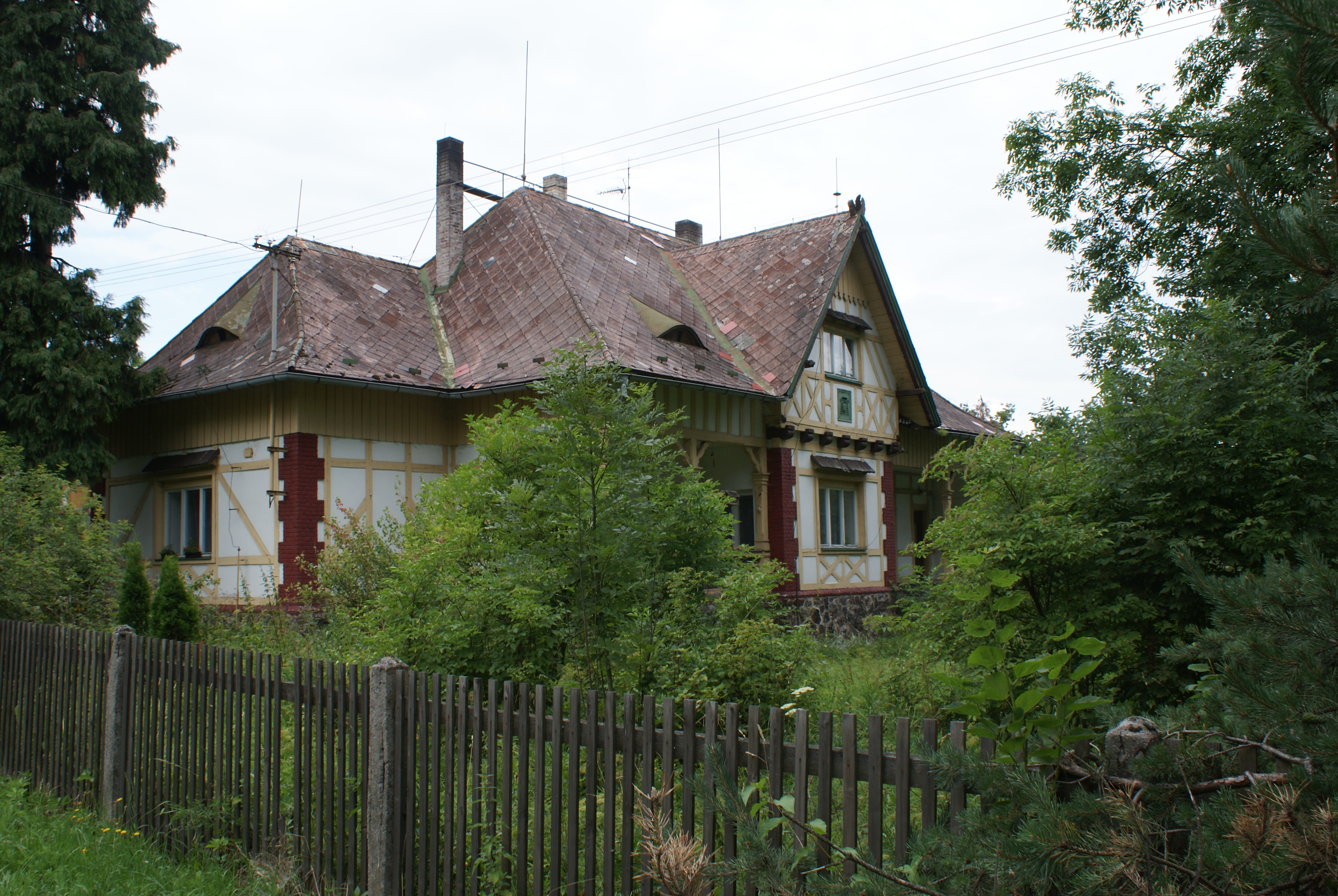 Teslíny, Příbram District, Czech Republic, a half-timbered gamekeepers lodge.